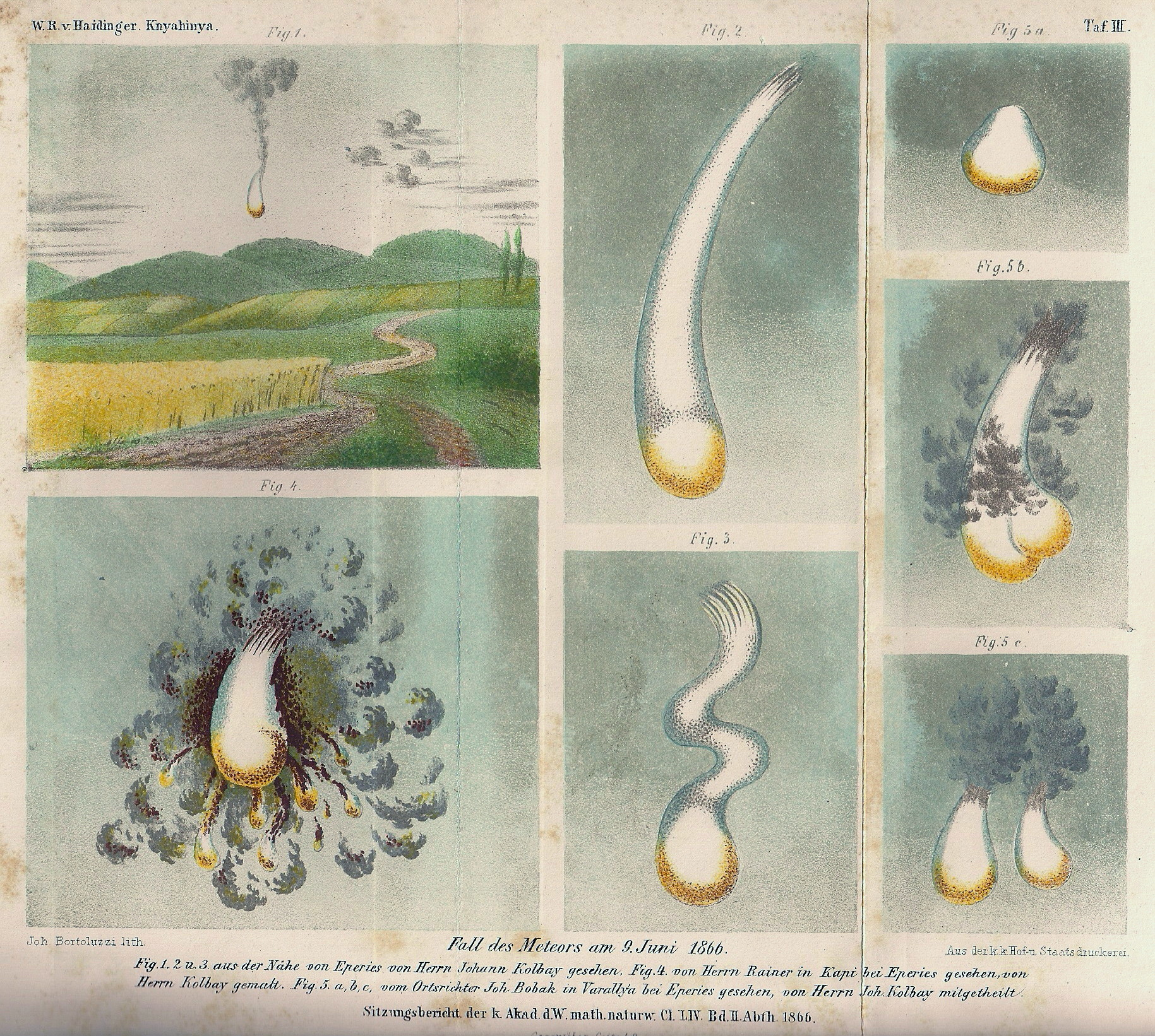 Contemporary drawing of the meteorite fall at Knyahinya (Ukraine) on June 9, 1866. From the resultiong meteorite shower, many meteorites totalling ~500kg were recovered. The largest stone, which broke into three pieces on impact, weighted 279kg. I is now on display in the Natuiral History Museum in Vienna, Austria.